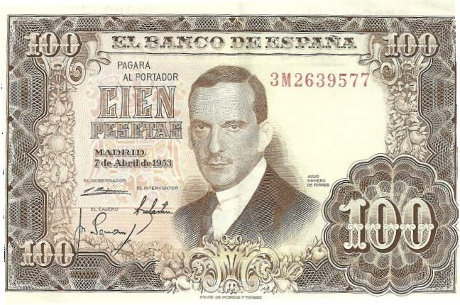 100 pesetas of Spain 1953, obverse.